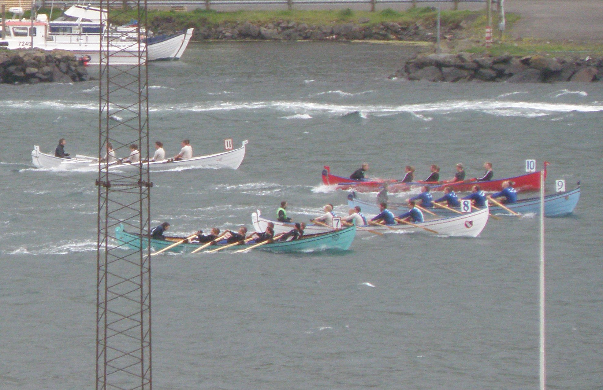 Boat race (rowing) in Vágur, Suðuroy, Faroe Islands on 26 June 2010. The category is 8-mannafør, which is the second largest boat type. The other categories are 5-mannafør, 6-mannafør and 10-mannafør. 5-mannafør is the most popular category and is used for boys and girls (children), boys and girls (youth) and women (adults over 18), 6-mannafør are used for men and women (not mixed, except for the coxswain, who can be of the other gender). The largest boats 8-mannafør and 10-mannafør are only for men. This was the race for 8-mannafør, the winner was Kvívíkingur from Kvívík, number two was Argjabáturin from Argir, number three was Árnfirðingur from the small village Árnafjørður, number 4 was Fríggjarin from Miðvágur, number 5 was Ørvur from Havnar Róðrarfelag (Tórshavn) and number 6 was Knørrur from Róðrarfelagið Knørrur (Tórshavn). So the boats from the villages won over the boats from the capital in this event. Normally the 8-mannafor are rowing 1500 meter, but in Vágur and in some other fjords or bays they are only rowing 1000 meters. Føroyskt: Kappróður á Jóansøku í Vági 26. juni 2010. Tað eru 8-mannafør ið rógva kapp her. Vinnarin gjørdist Kvívíkingur, Argjabáturin nummar tvey, Árnfirðingur var nummar trý, Fríggjarin nummer 4, Ørvur nummar 5 og Knørrur nummar 6.